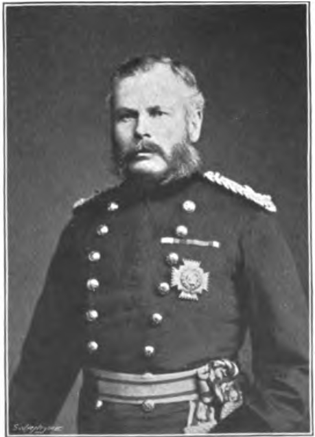 Picture of Sir Charles George Arbuthnot.